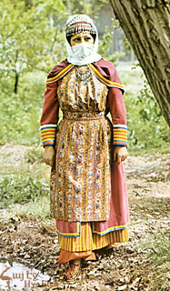 Taraz (national costume) of a rural Armenian from Timar (Vaspurakan)